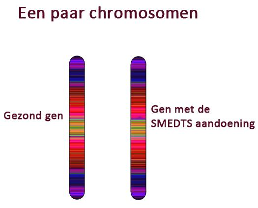 A pair of chromosomes with the SMEDTS disease.